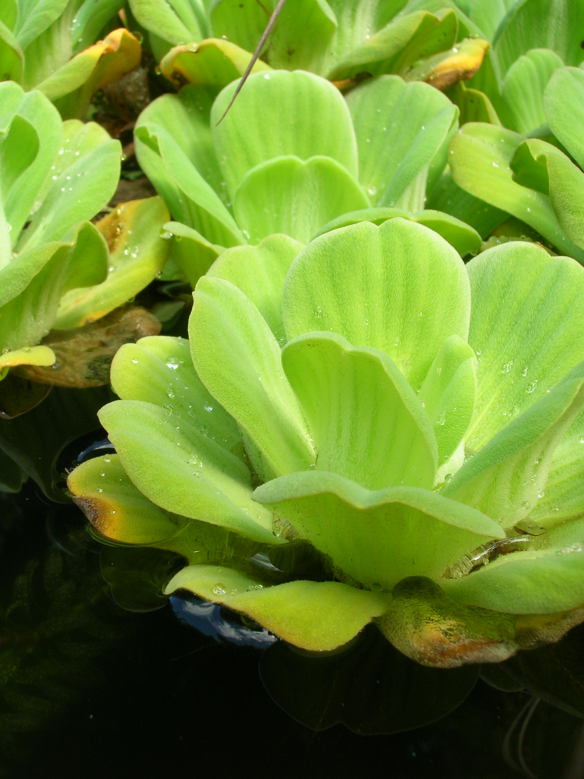 Pistia stratiotes (in water garden). Location: Maui, Hoolawa Farms